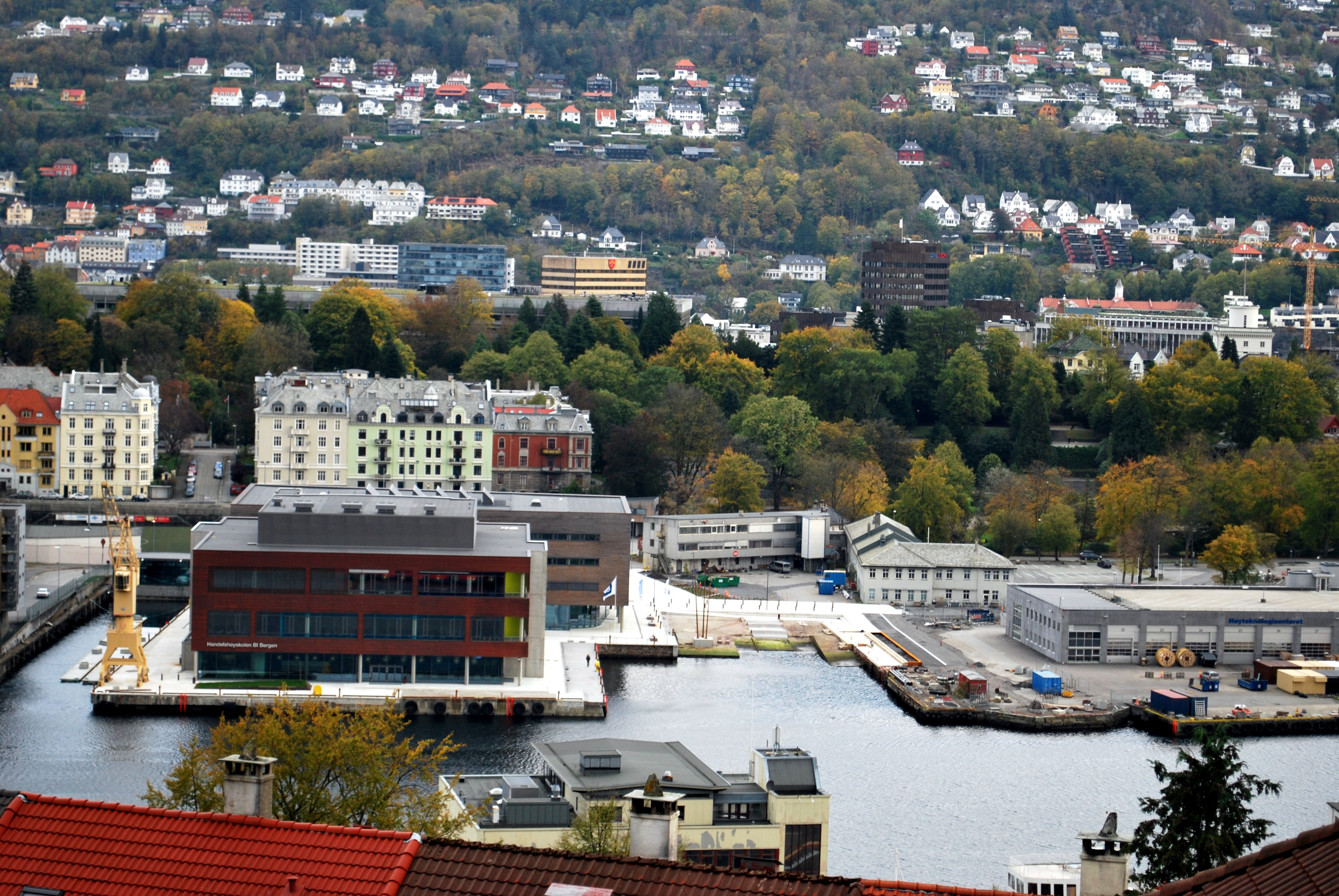 Handelshøyskolen BI Bergen, Møhlenpris/Marineholmen.